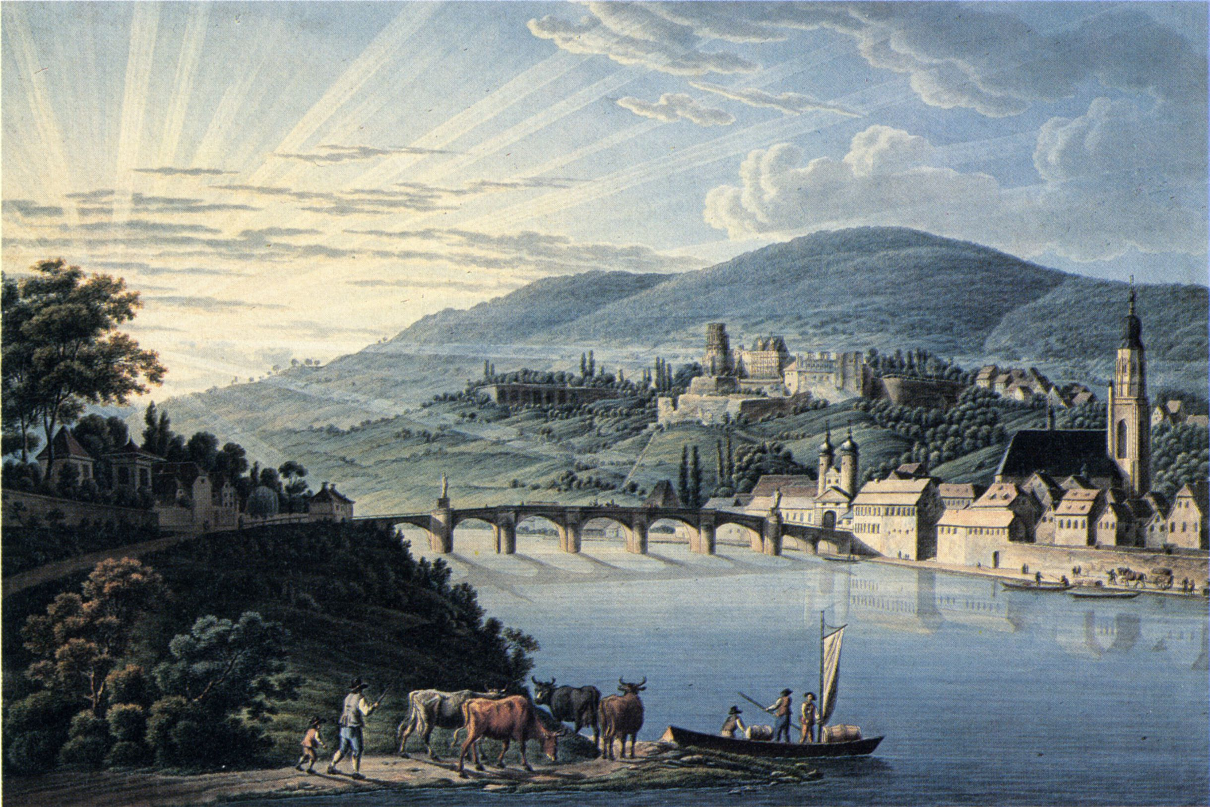 View of Heidelberg around 1800, painting by Friedrich Rottmann